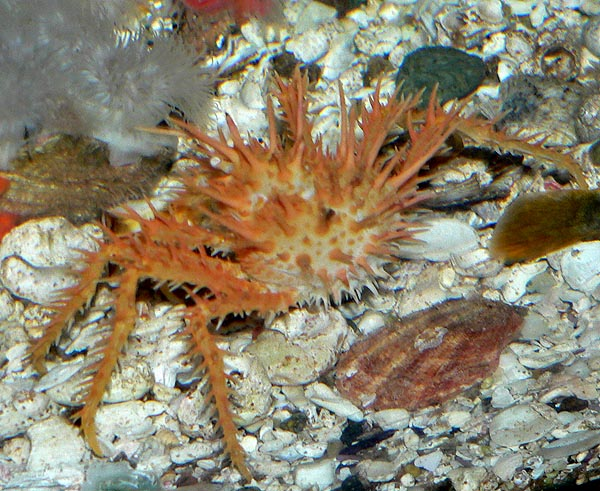 Photo of Paralithodes californiensis (king crab) at the Birch Aquarium in San Diego